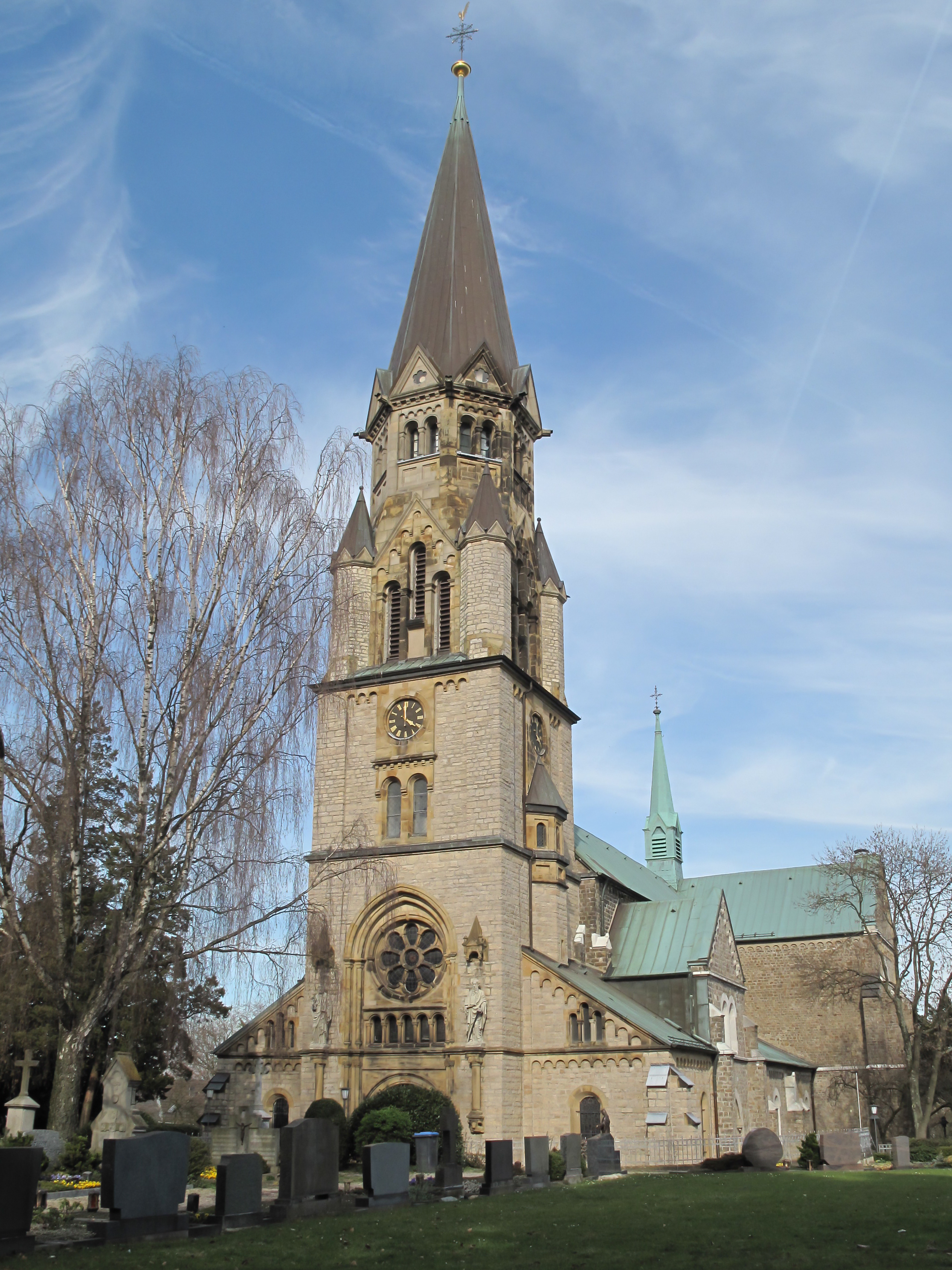 Eilendorf, catholic church